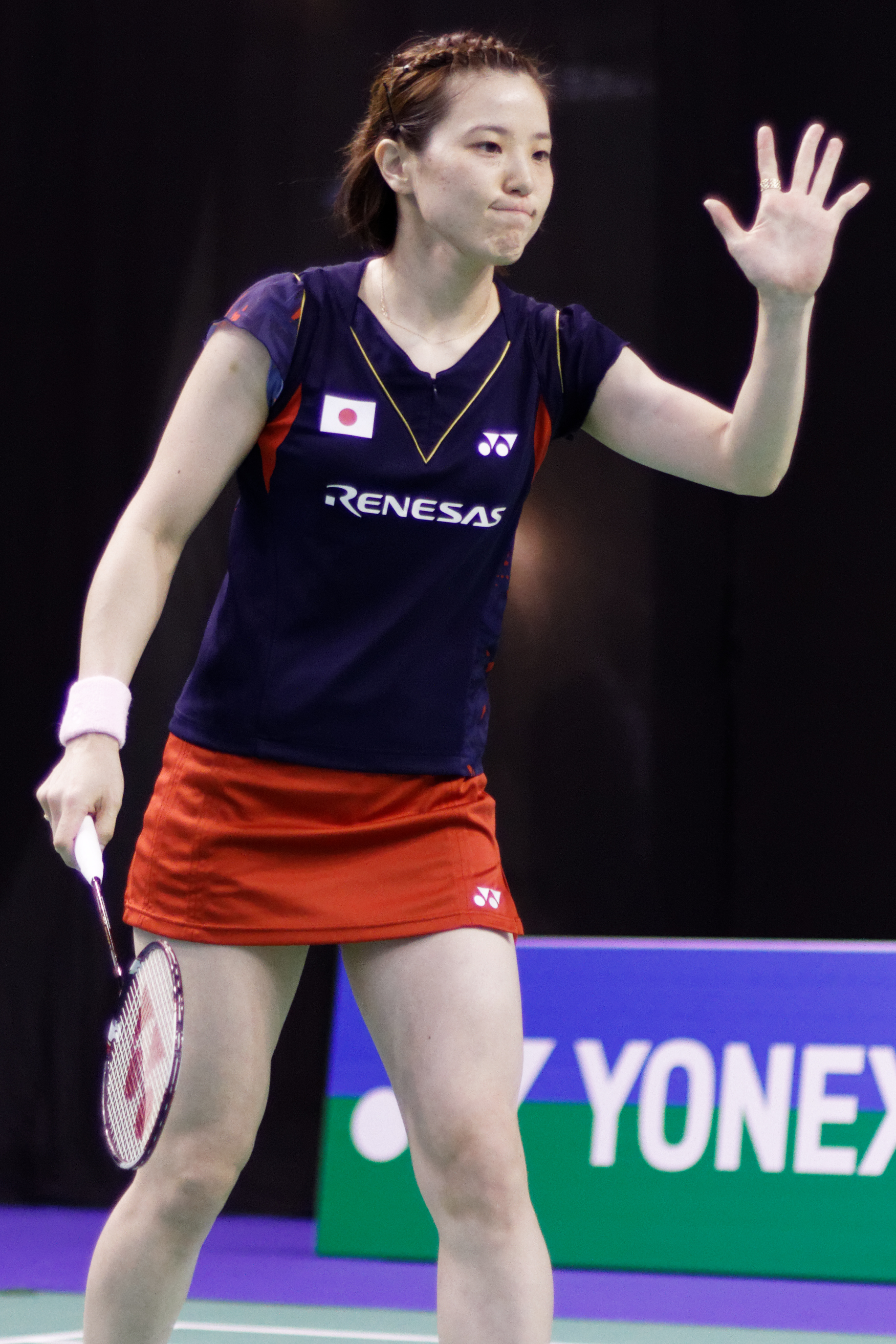 2013 French open. Women's doubles quarterfinal. Reika Kakiiwa and Miyuki Maeda vs Bao Yixin and Tang Jinhua.